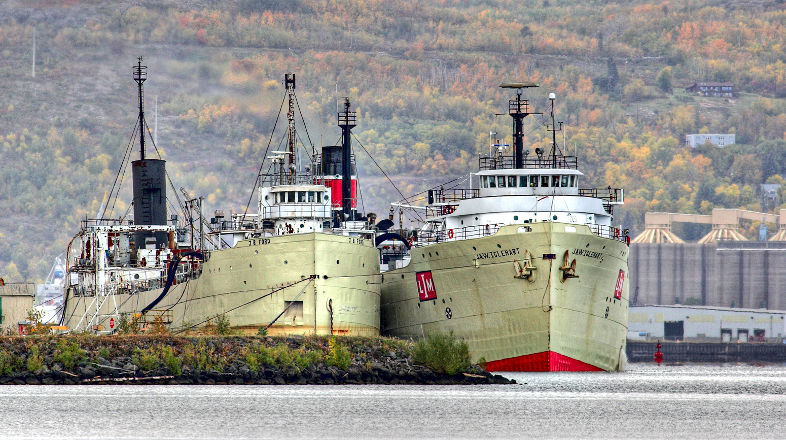 Cement carrier and storage vessel, Lake Superior, Duluth, Minnesota J.B. Ford IMO number 5166378 J.A.W. Iglehart IMO number 5139179